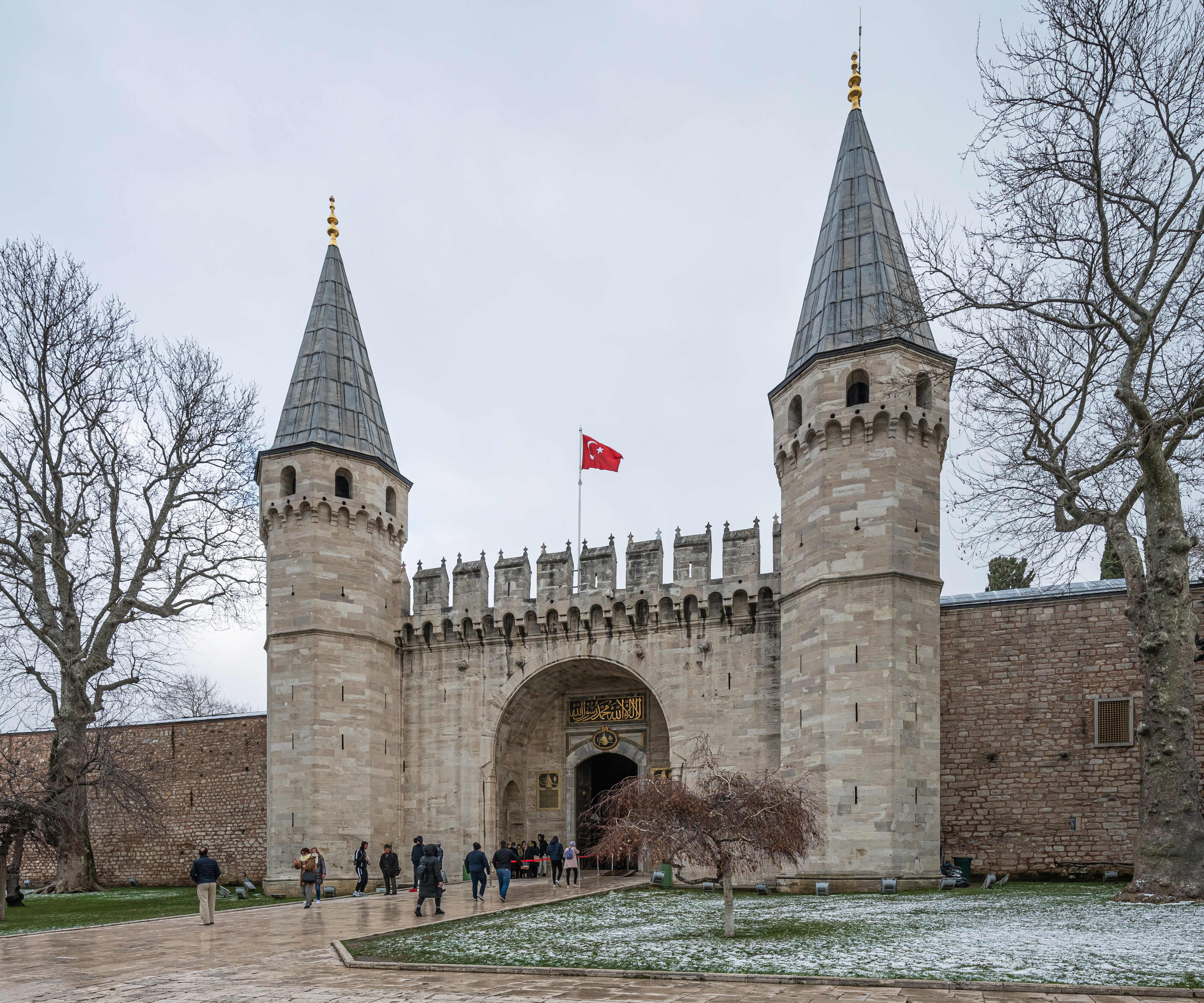 Salutation Gate of Topkapı Palace in Istanbul, Turkey